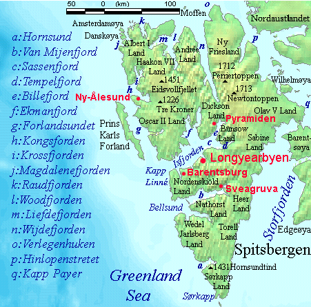 Map detailing the marine features of Spitsbergen in the Svalbard archipelago. Settlements and mountains are indicated and labelled. See also Image:Spitsbergen mountains and marine features labelled.png. Locations were labelled mainly based on detailed maps from (sample of south Spitsbergen linked), cross-referenced with other map sources where possible. Norwegian Polar Institute figures were used for mountain names and heights, which are given in meters above sea level.